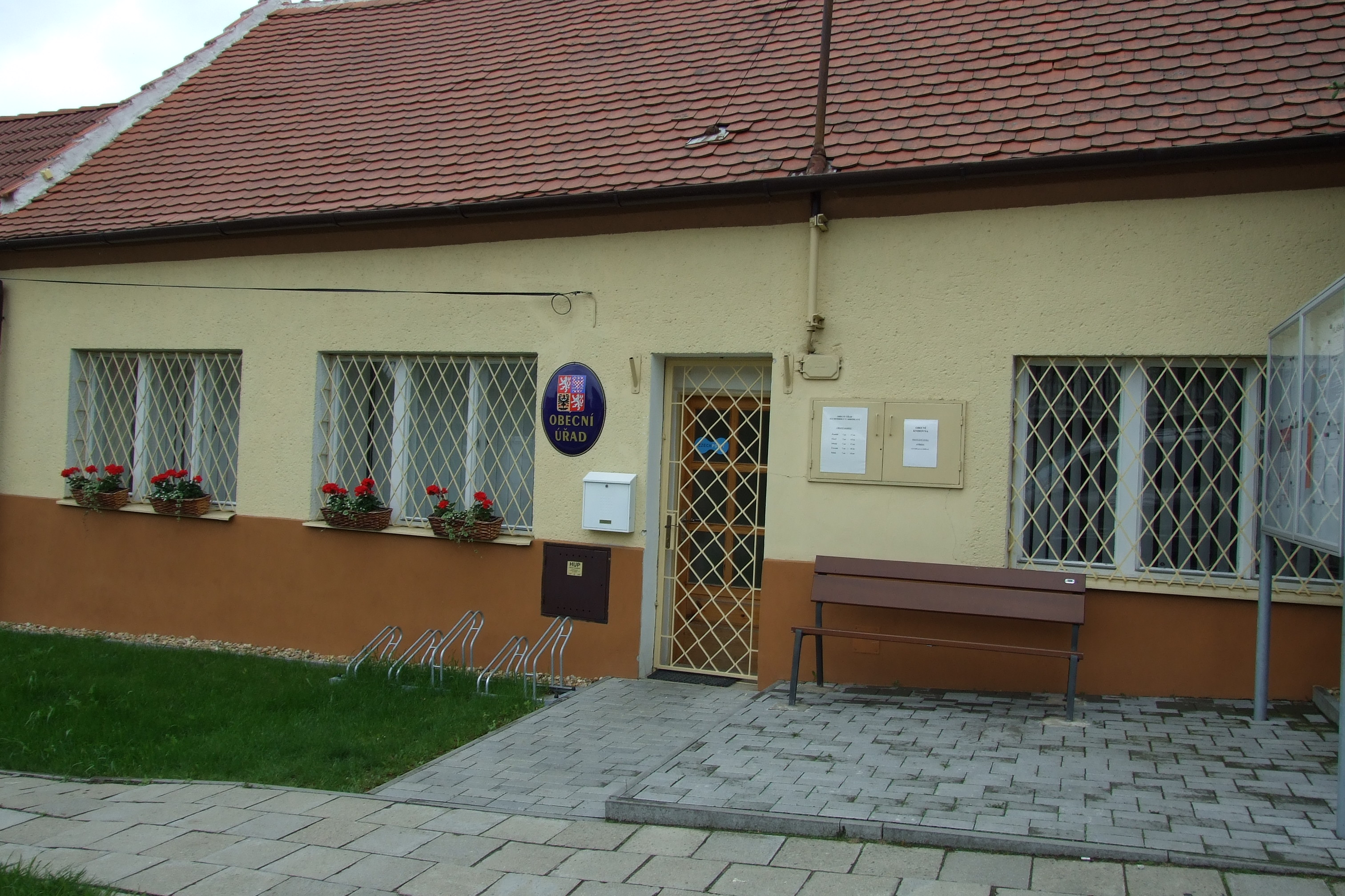 Municipal Office in the village Suchohrdly u Miroslavi.